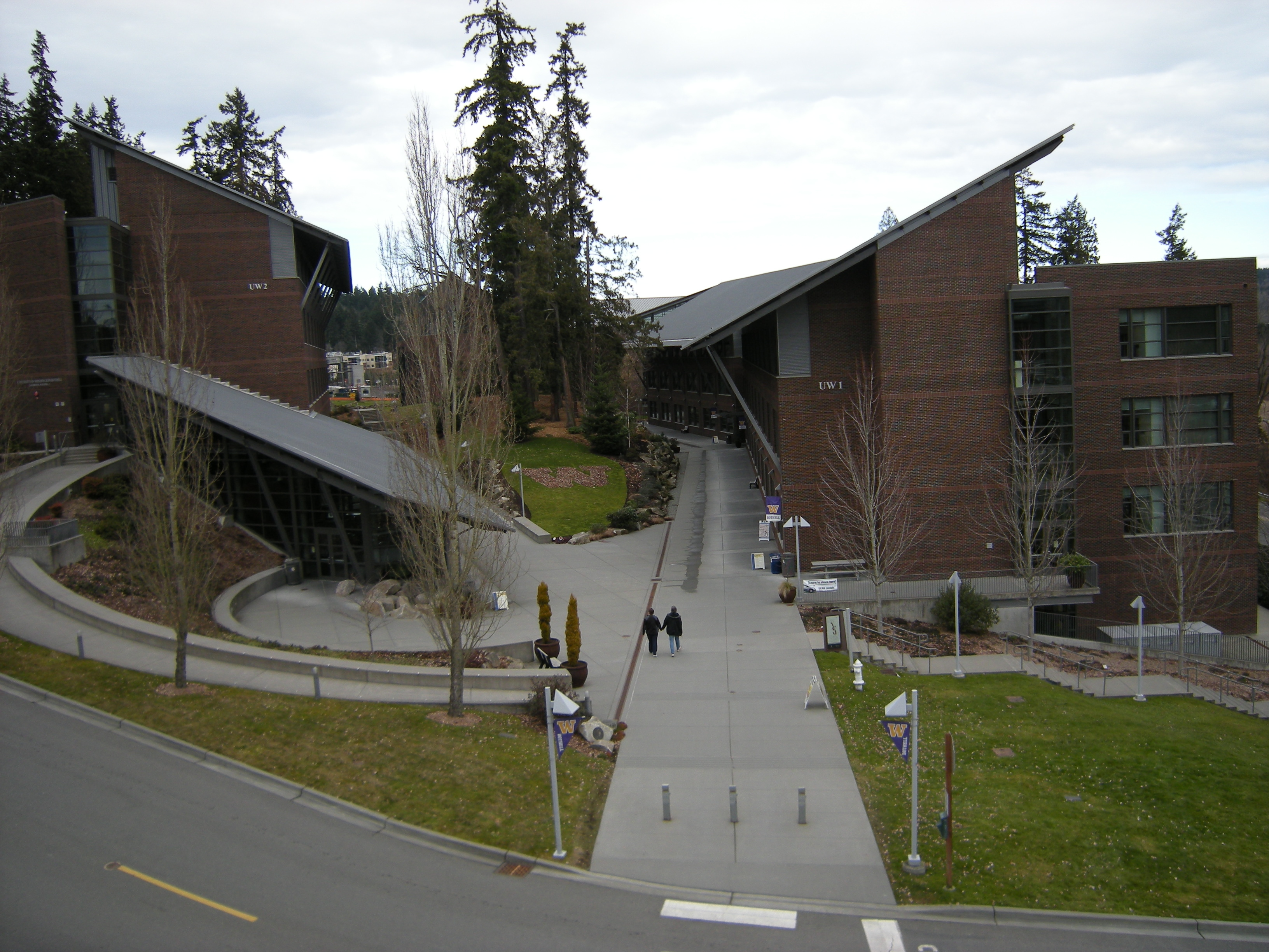 University of Washington Bothell, Bothell, Washington, USA.